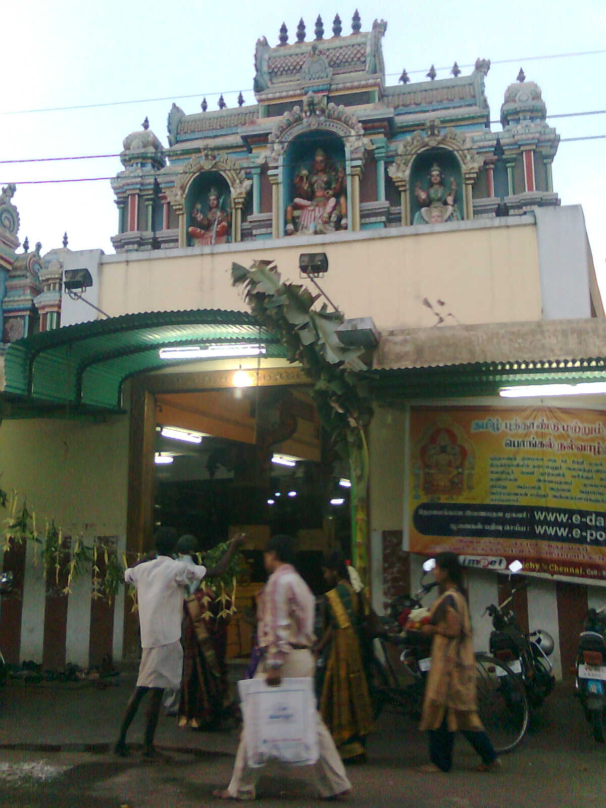 Vekkali Amman Temple at the Evening Time (Woraiyur, Tiruchirappalli)